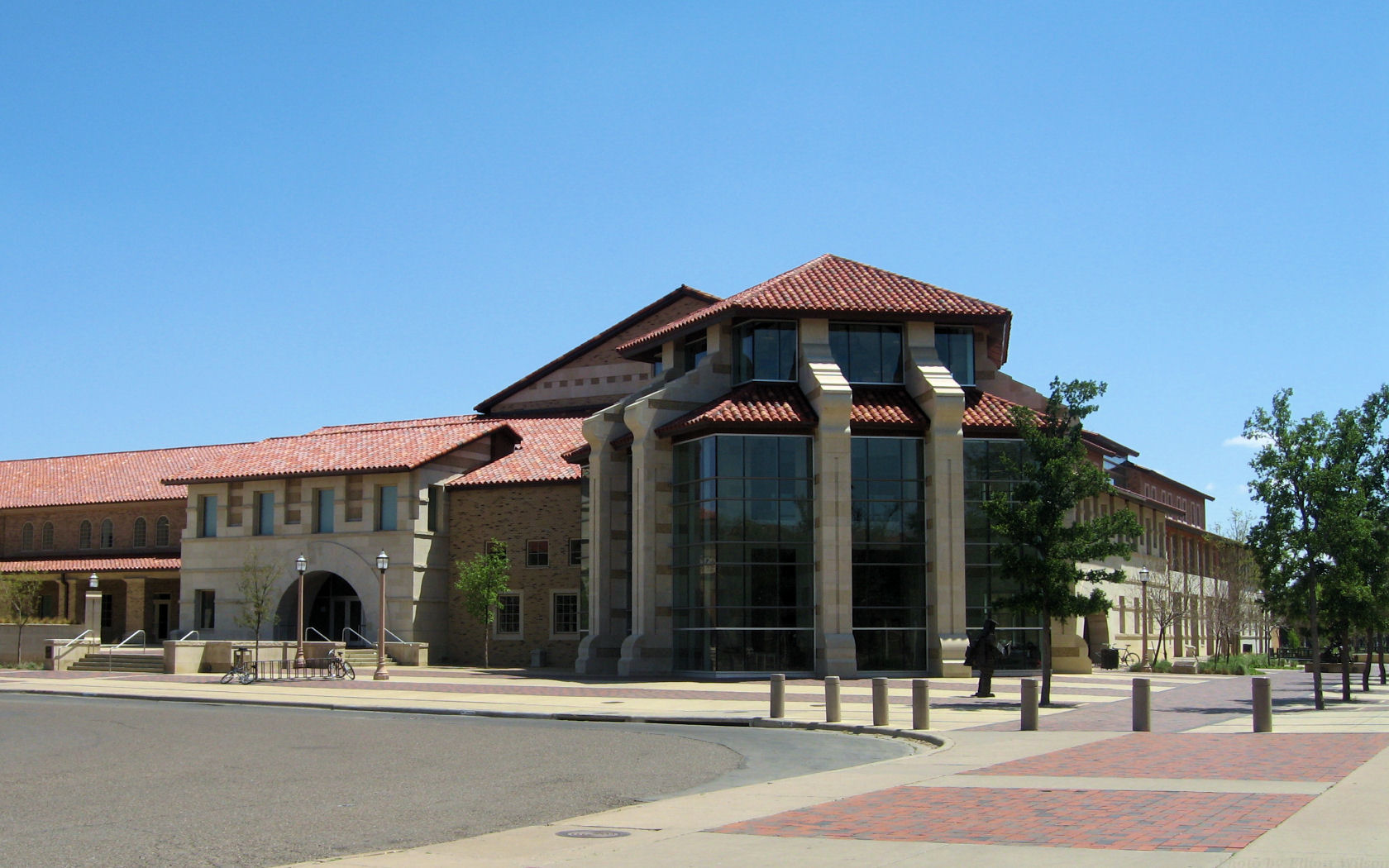 The Student Union building at Texas Tech University in Lubbock, Texas, U.S.